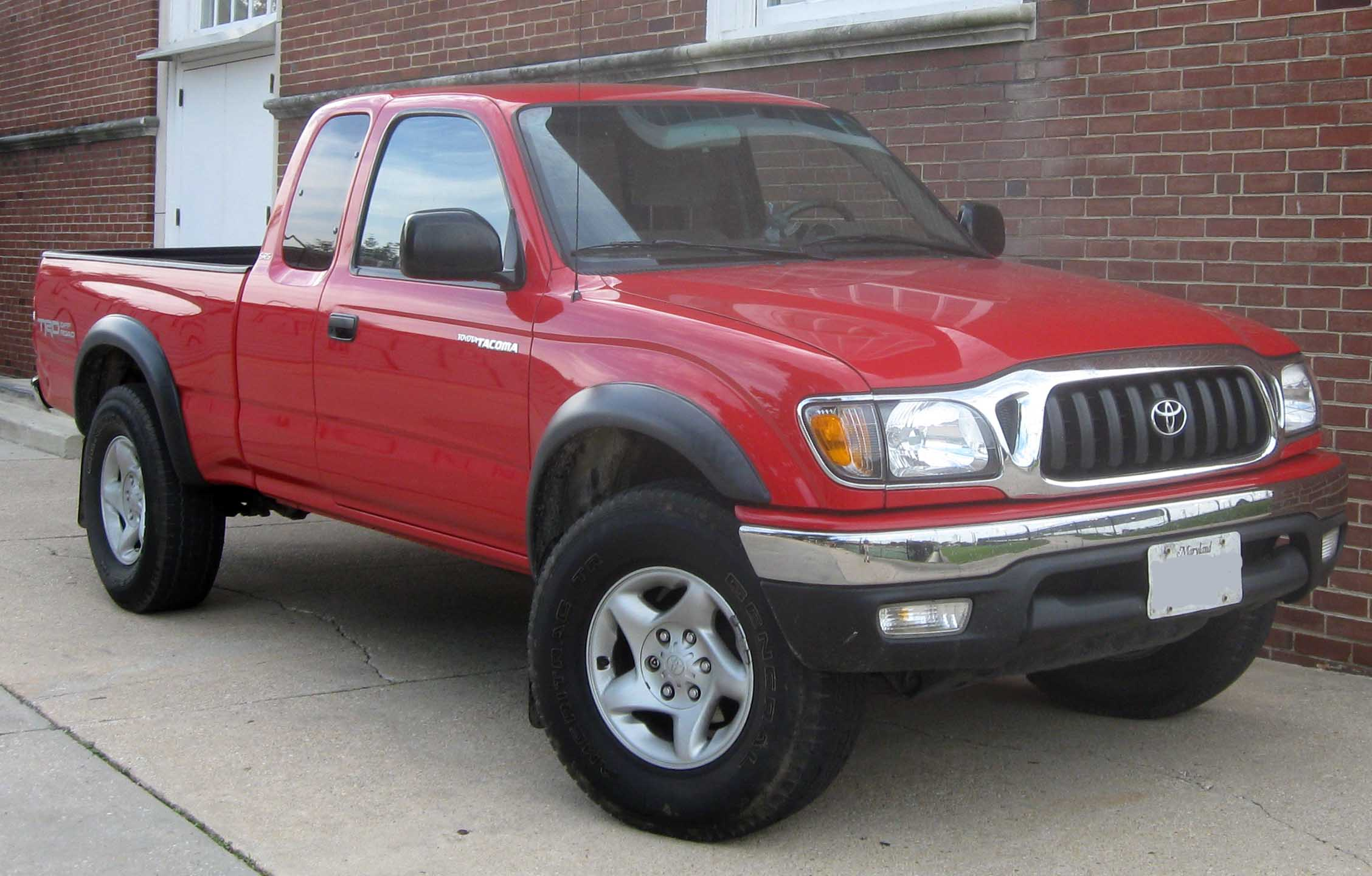 2001-2004 Toyota Tacoma photographed in College Park, Maryland, USA.